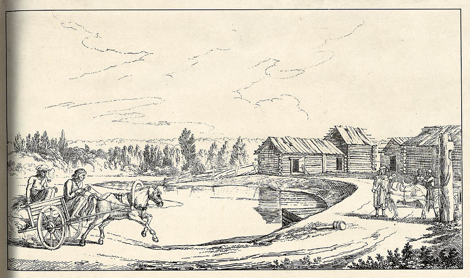 View of the post house at Hottaki